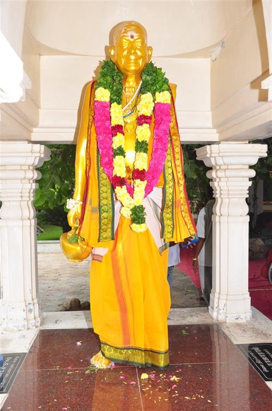 22ND GURU POOJAI